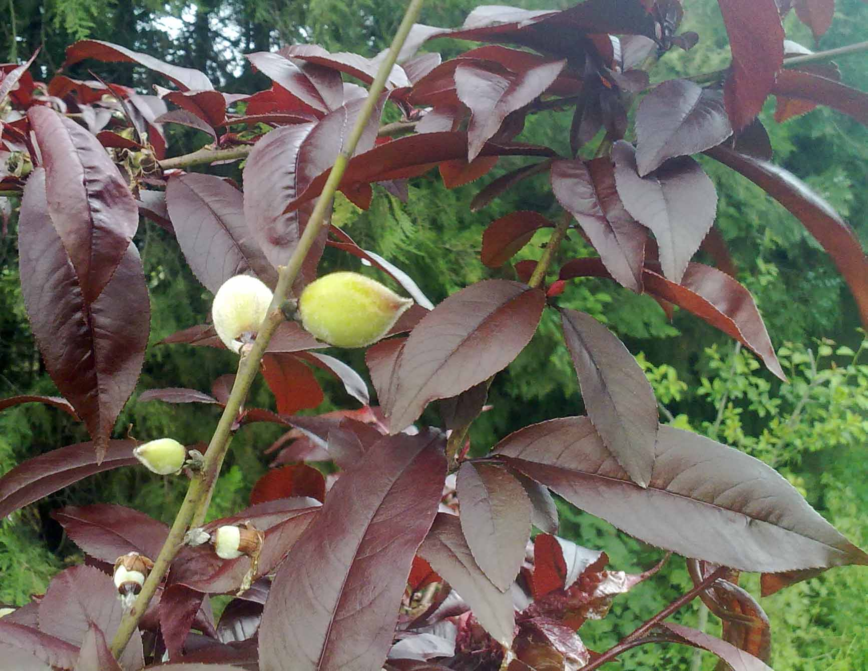 peach tree with red leafs.